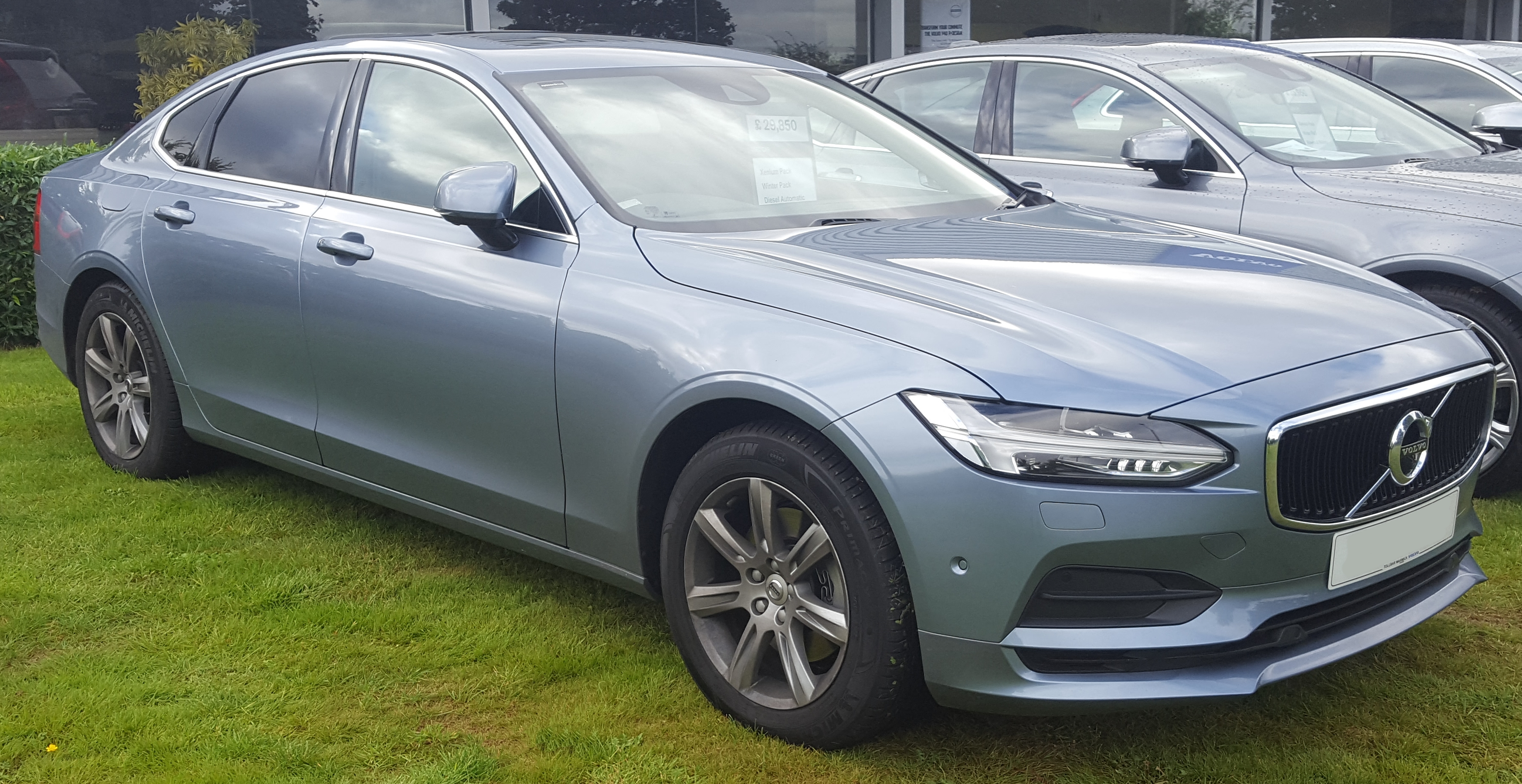 2017 Volvo S90 Momentum D4 Automatic 2.0 Front Taken in Leamington Spa